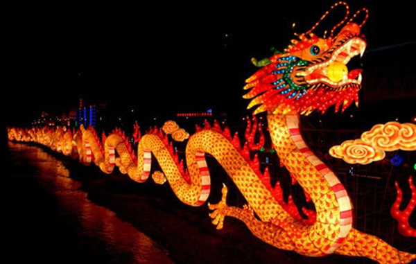 Chinese Dragon Lantern Festival in China 2012.